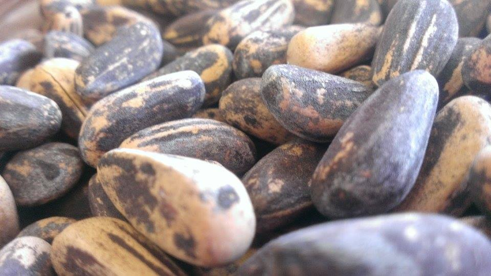 unpilled pine nuts